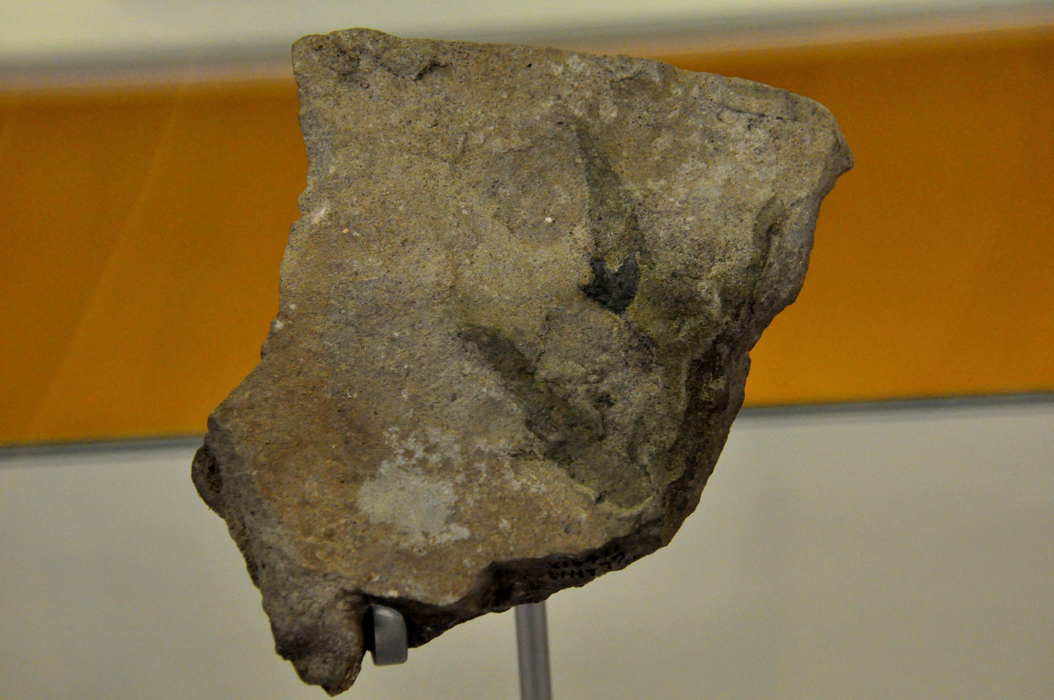 This is the world's smallest dinosaur footprint and has been officially recognized by the book of Guinness World Record in the year 2006. The Hunterian curator of fossils discovered it by chance in 2005 while examining a larger footprint at the surface of the same rock. The smaller one was found between its toes. The dinosaur that made this tiny footprint was no bigger than a blackbird. The footprint dates back to the Middle Jurassic Period, 170 million years ago. It is housed in the Hunterian Museum at the University of Glasgow, Scotland, UK. The fossil was found in the Kilmaluag Formation of Jurassic rocks on the Isle of Skye, Scotland. The footprint is 1.78 cm long.